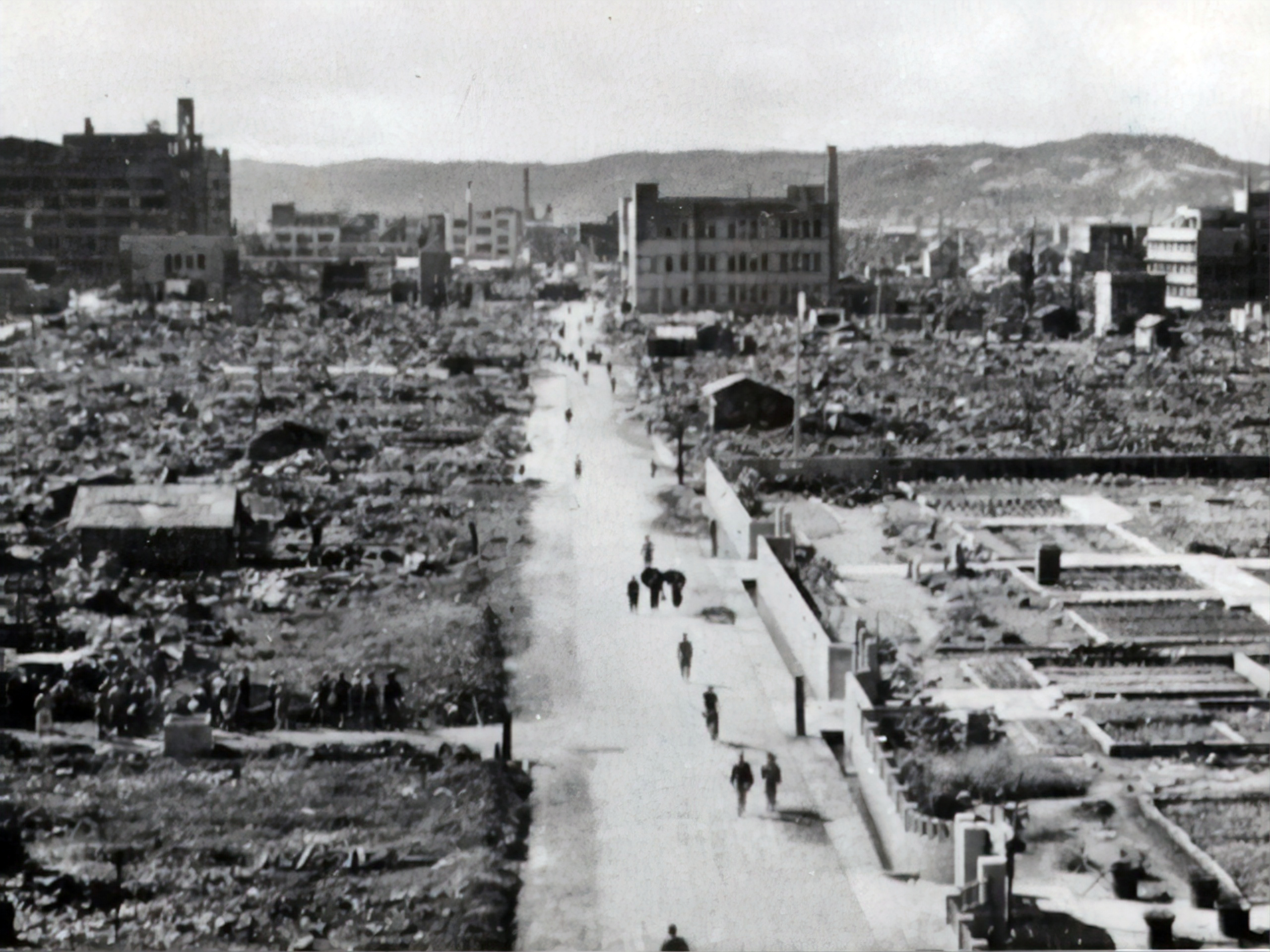 Okayama(Japan) after air raid on 29 June 1945.